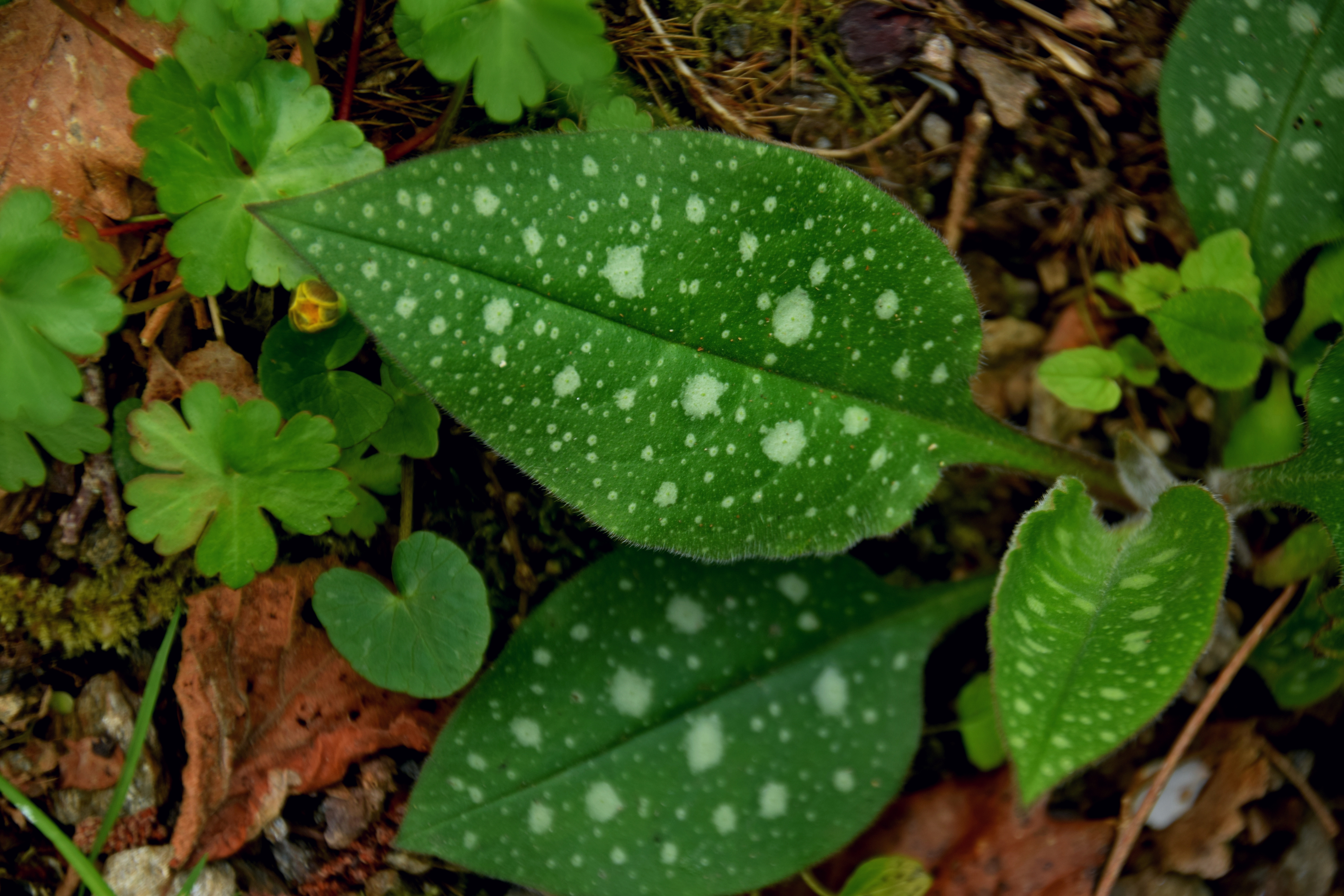 Leaf of Pulmonaria affinis, Belcastel, Aveyron, France